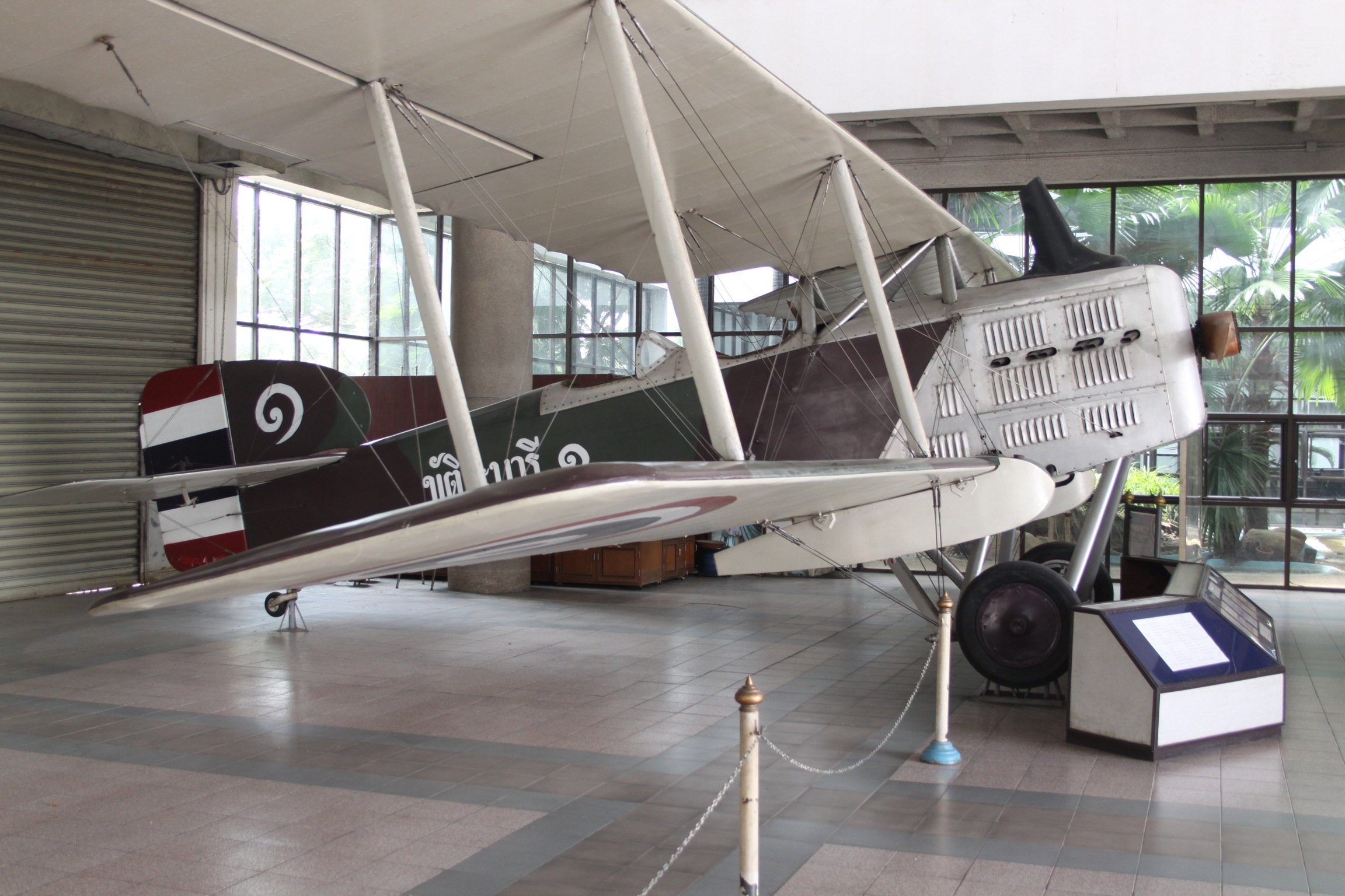 At Don Mueang International Airport